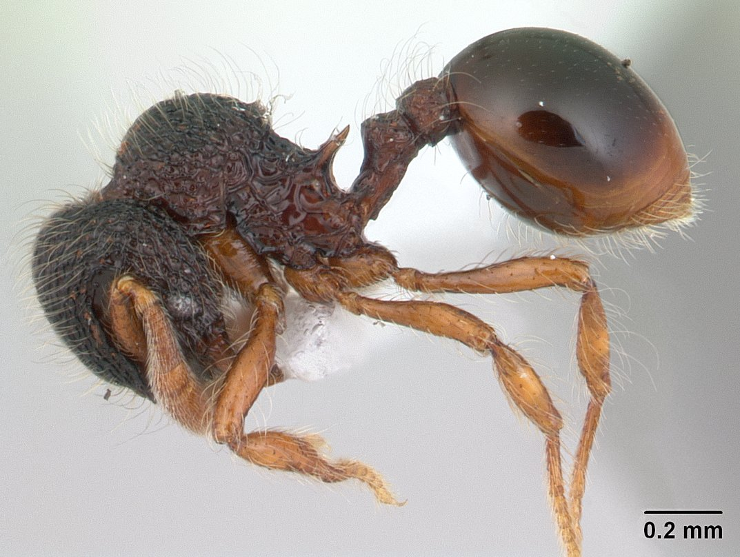 Profile view of ant Lachnomyrmex amazonicus specimen casent0178855.